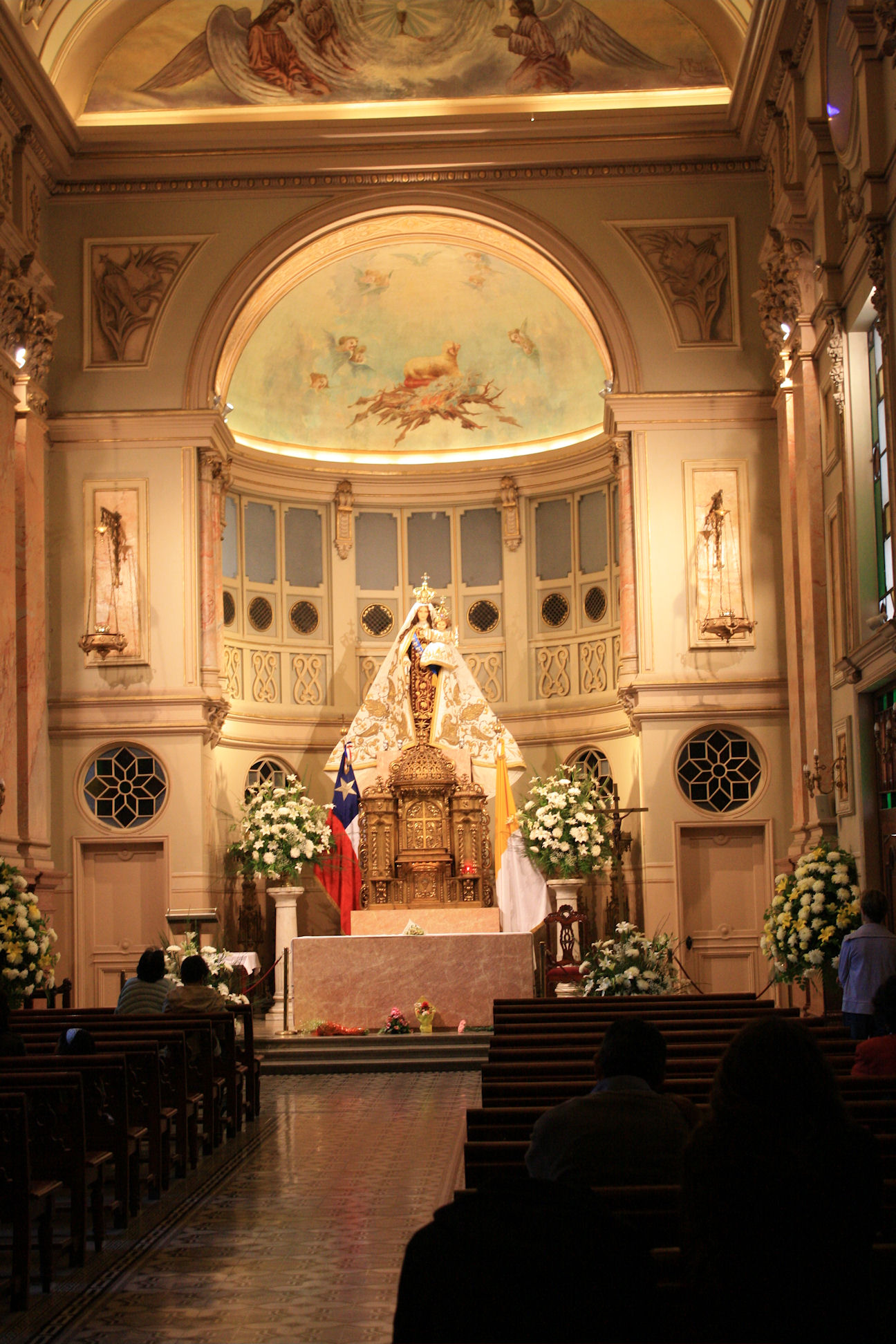 A side chapel of the Metropolitan Cathedral, Santiogo